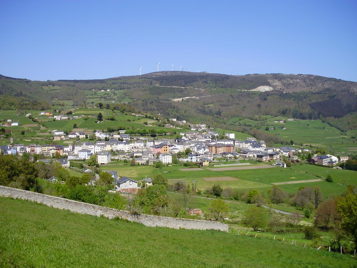 This picture shows a general outlook of the village of Boal (Asturias, Spain) from the environs of Llaviada.